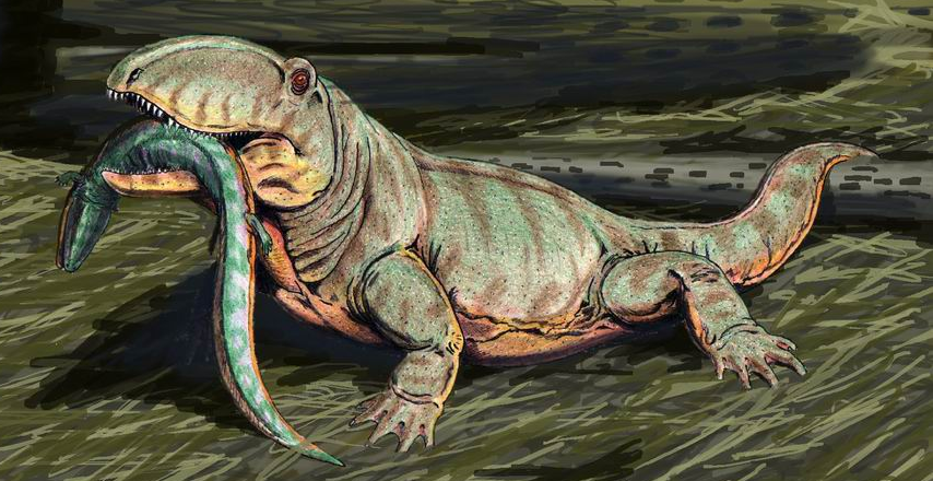 Crop of file in filename